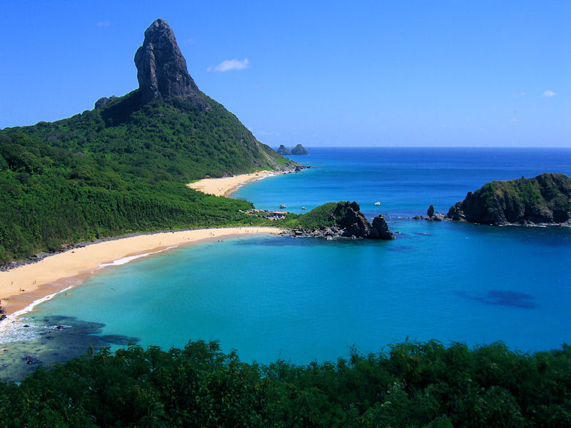 Fernando de Noronha - Pernambuco - Brazil